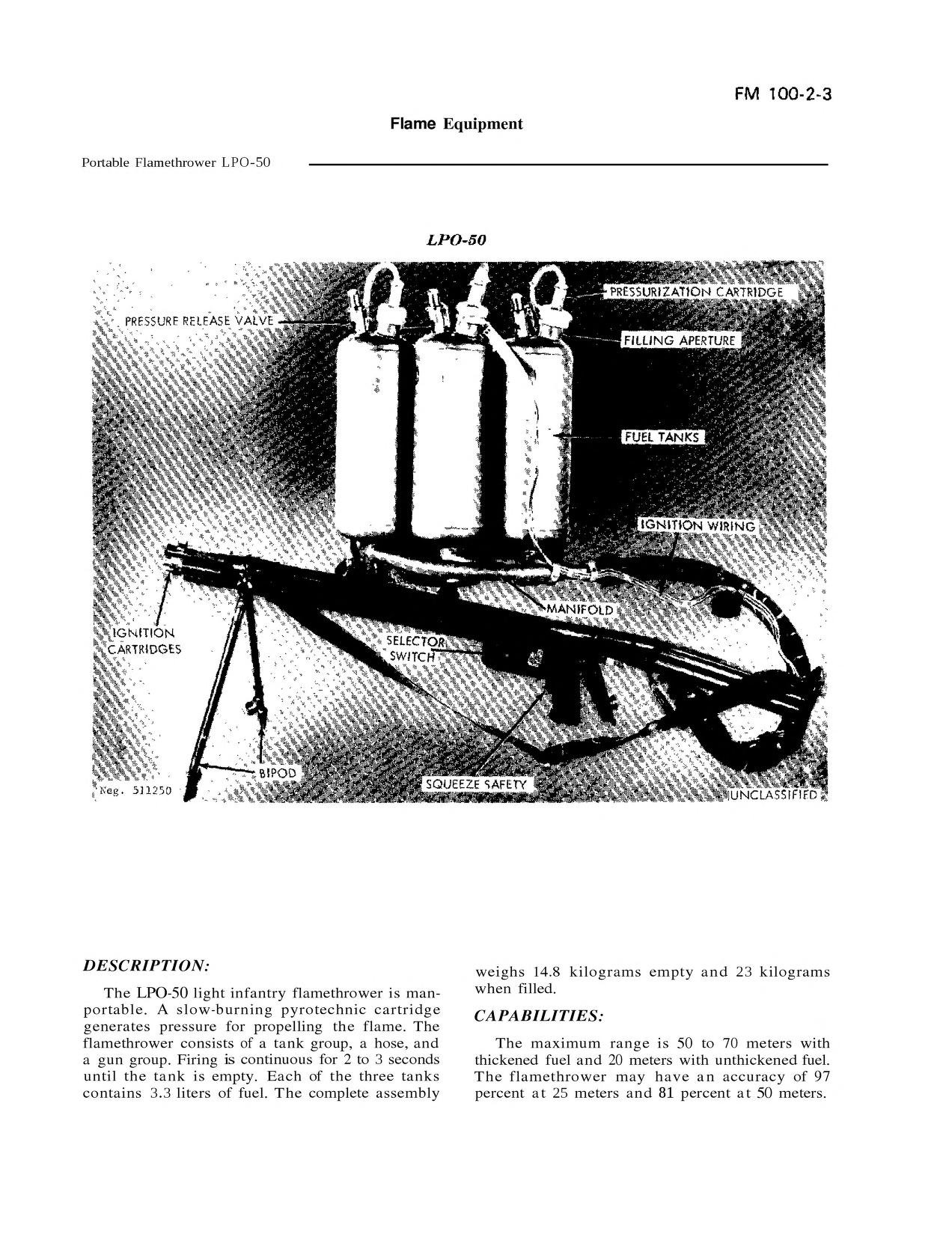 Page from the book shown, with picture and description of the Soviet Army LPO-50 flamethrower.